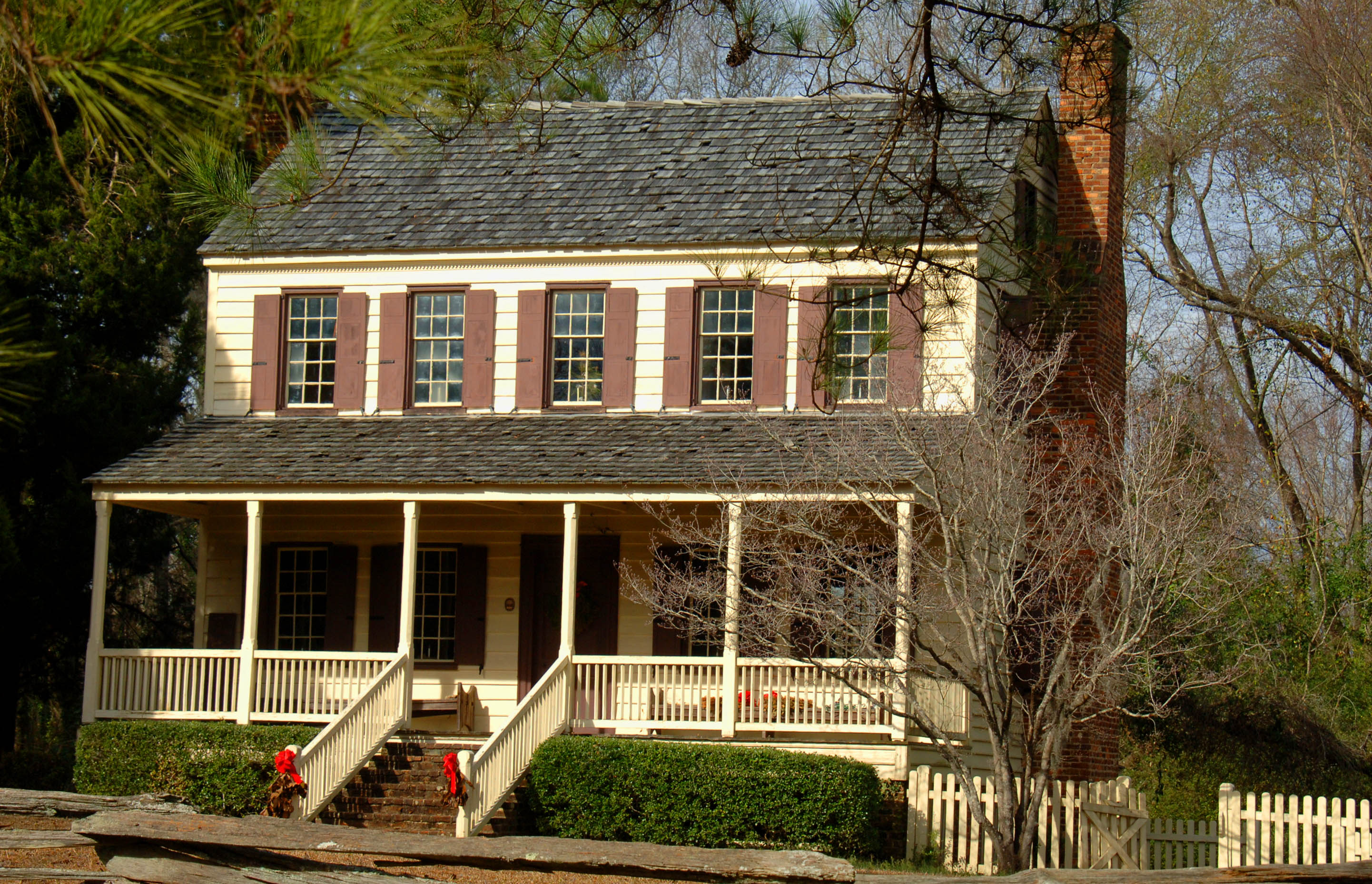 PLANTATION HOME OF JAMES WITHERSPOON; CIRCA 1749